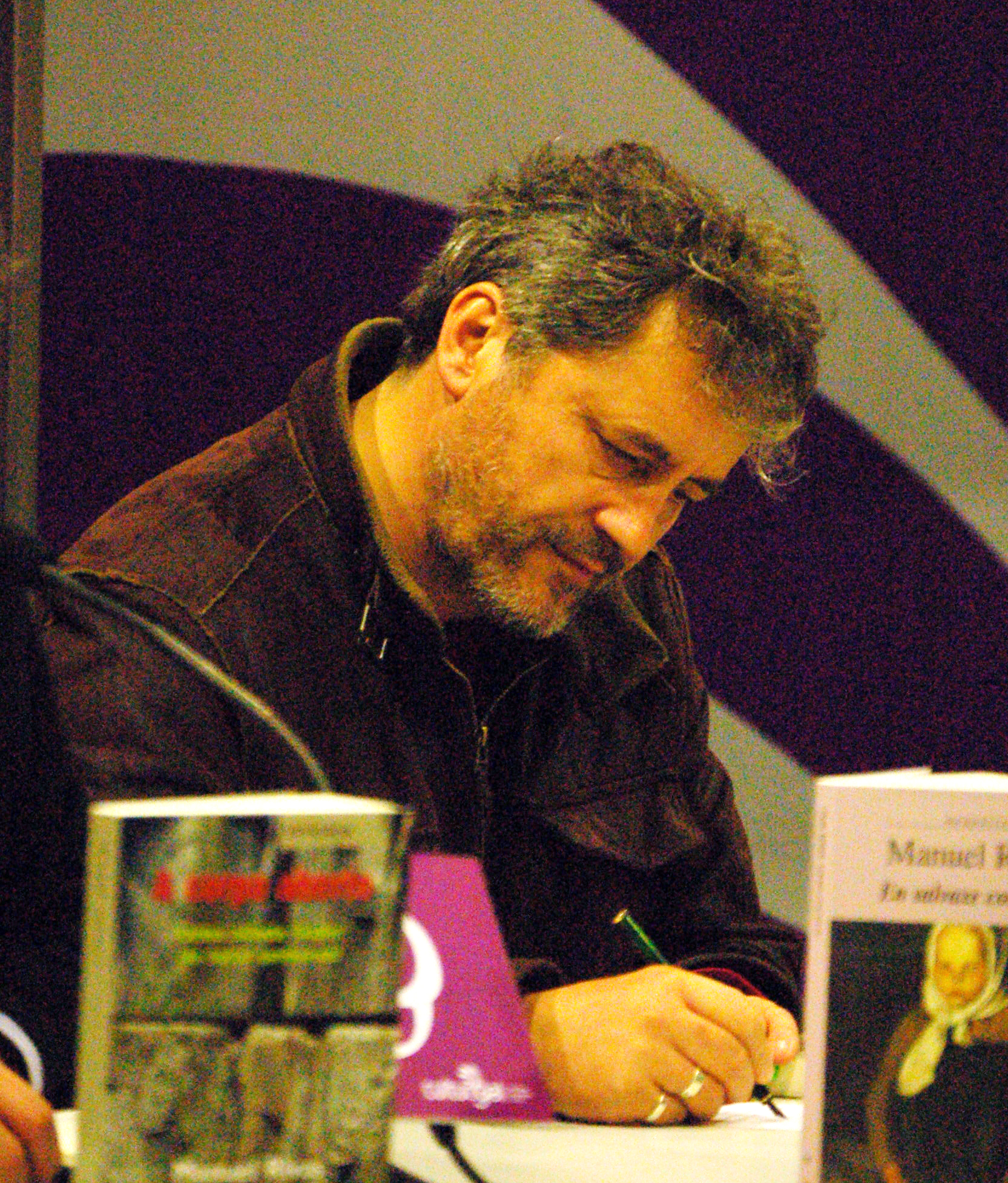 Manuel Rivas